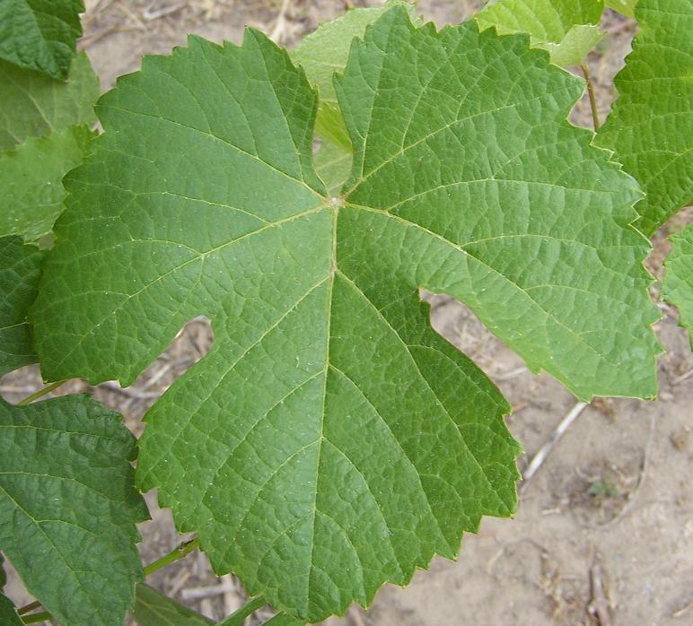 Touriga leaf at Hedges vineyard in Red Mountain AVA. Taken on Sunday June 10th, 2007 with a kodak z650.